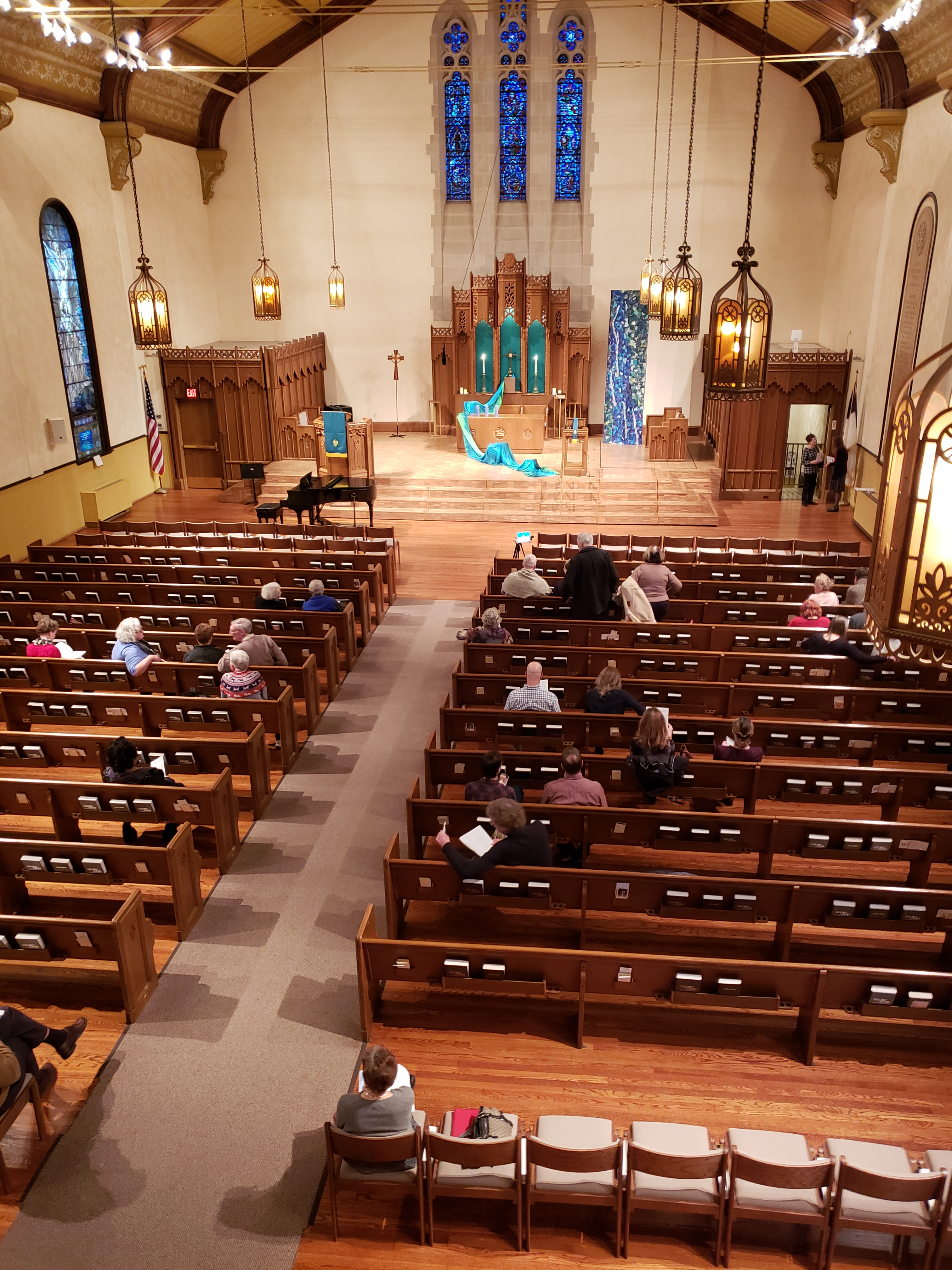 The Sanctuary, as seen from the Organ loft, just before Sunday worship service.